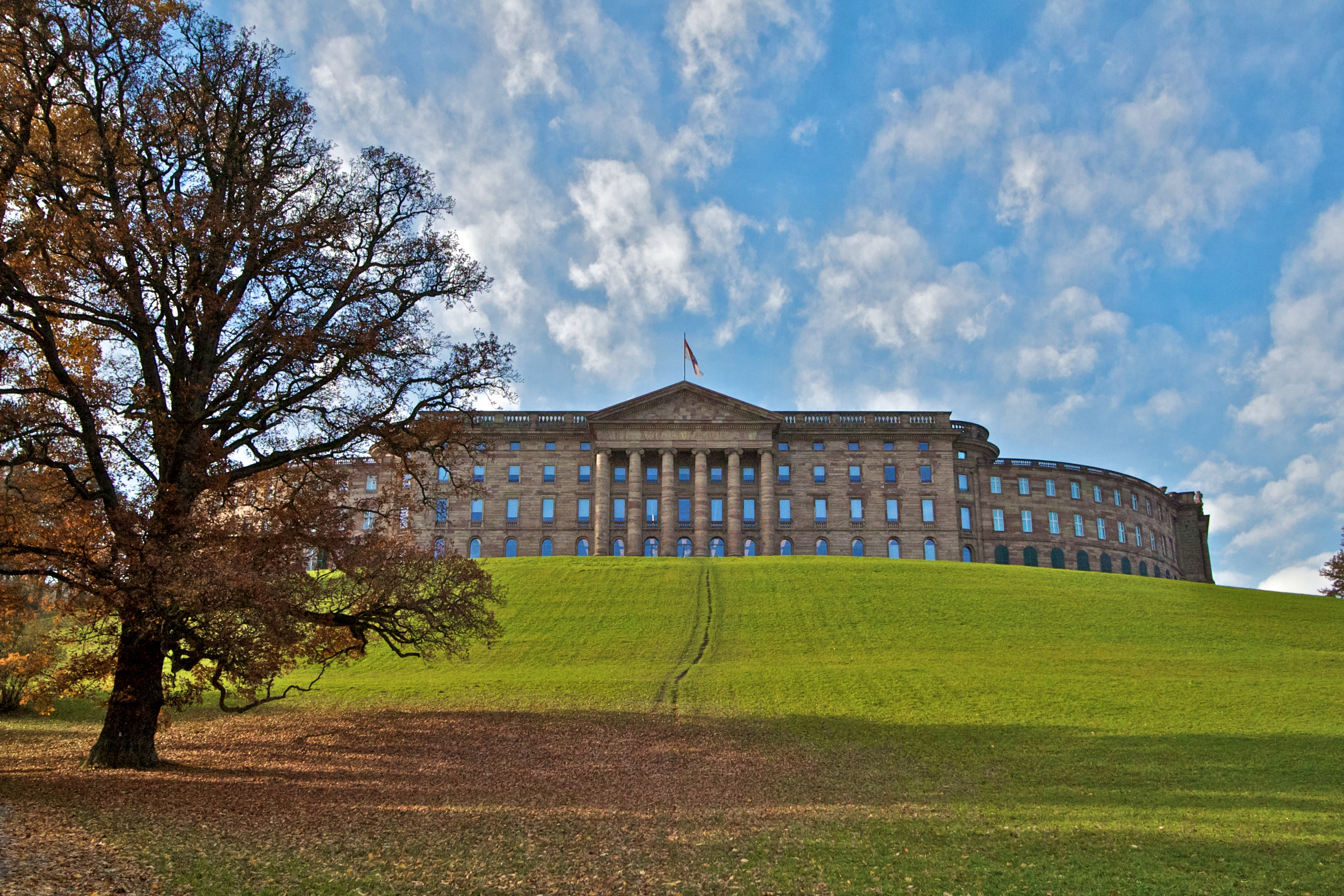 Schloss Wilhelmshöhe is a palace located in Europe's largest hillside park (and the world's second largest park on a mountain slope), Bergpark Wilhelmshöhe, situated above Kassel, Germany.